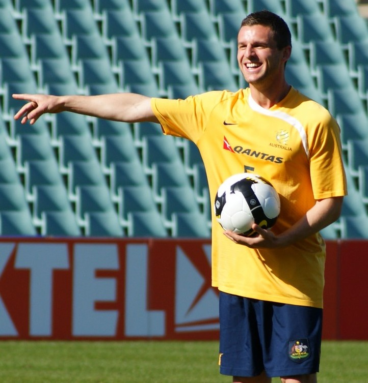 Jason Culina at Socceroos training.